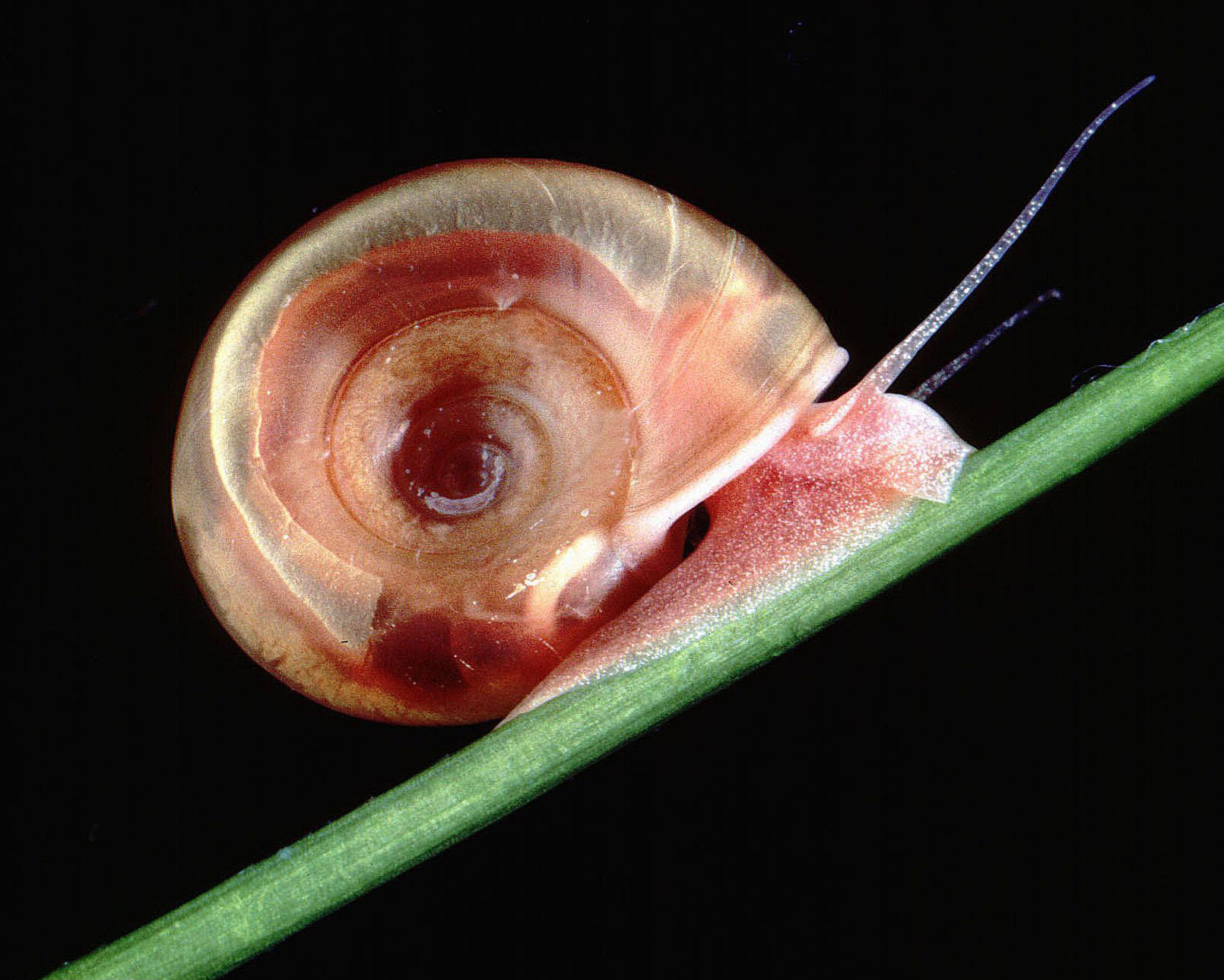 Photo of an unidentified freshwater snail from the family Planorbidae.